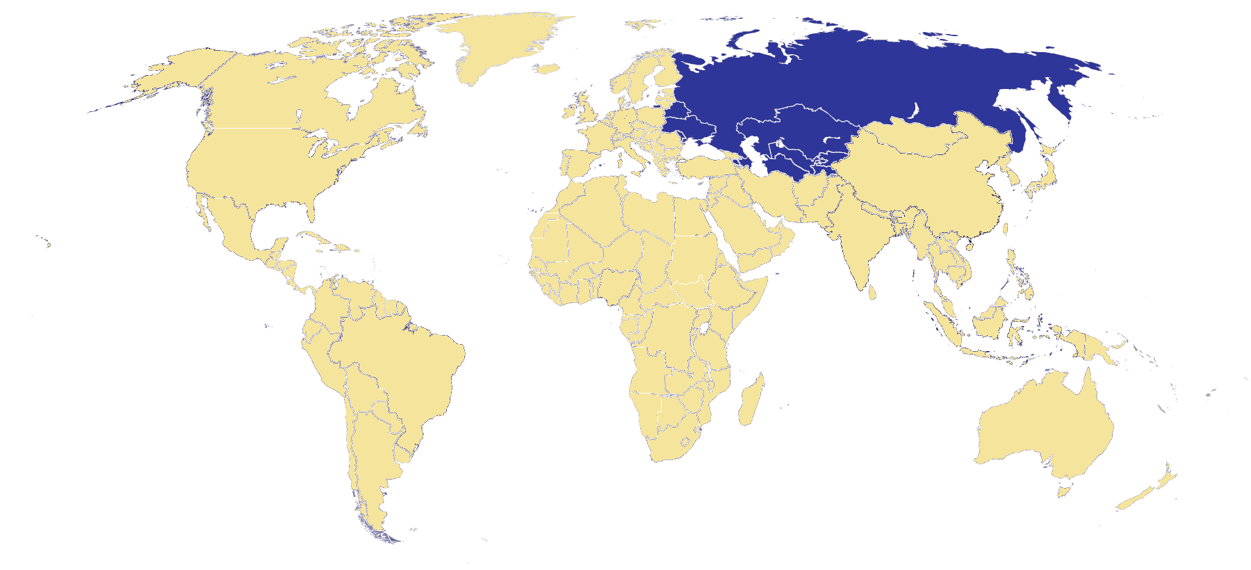 This map shows, in blue color, the countries where the Russian Wikipedia is the most popular language version of Wikipedia. The information has been sourced from here